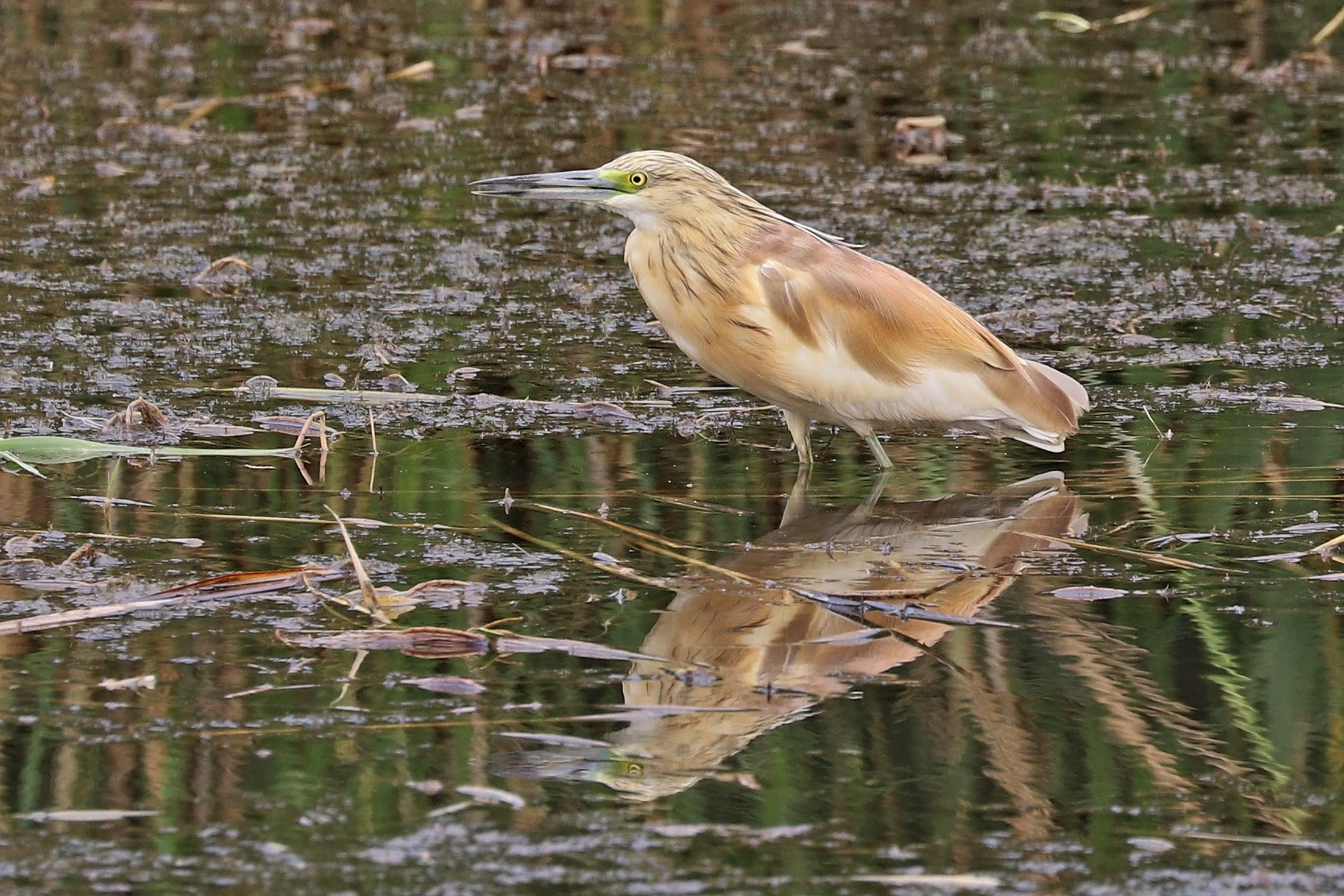 Squacco heron (Ardeola ralloides ralloides), Azrac Wetland Reserve, Jordan